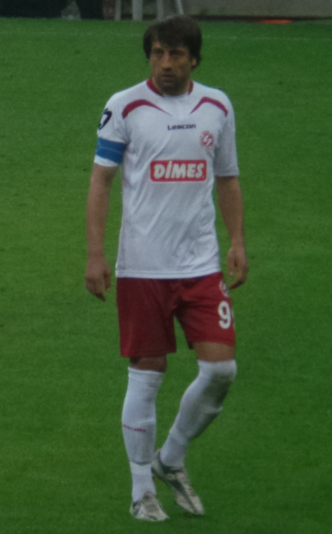 Yaşar Kabakçı